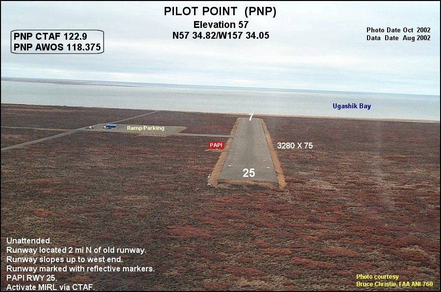 Annotated aerial photograph (oblique east view) of Pilot Point Airport (IATA: PIP, FAA: PNP) in Pilot Point, Alaska, United States